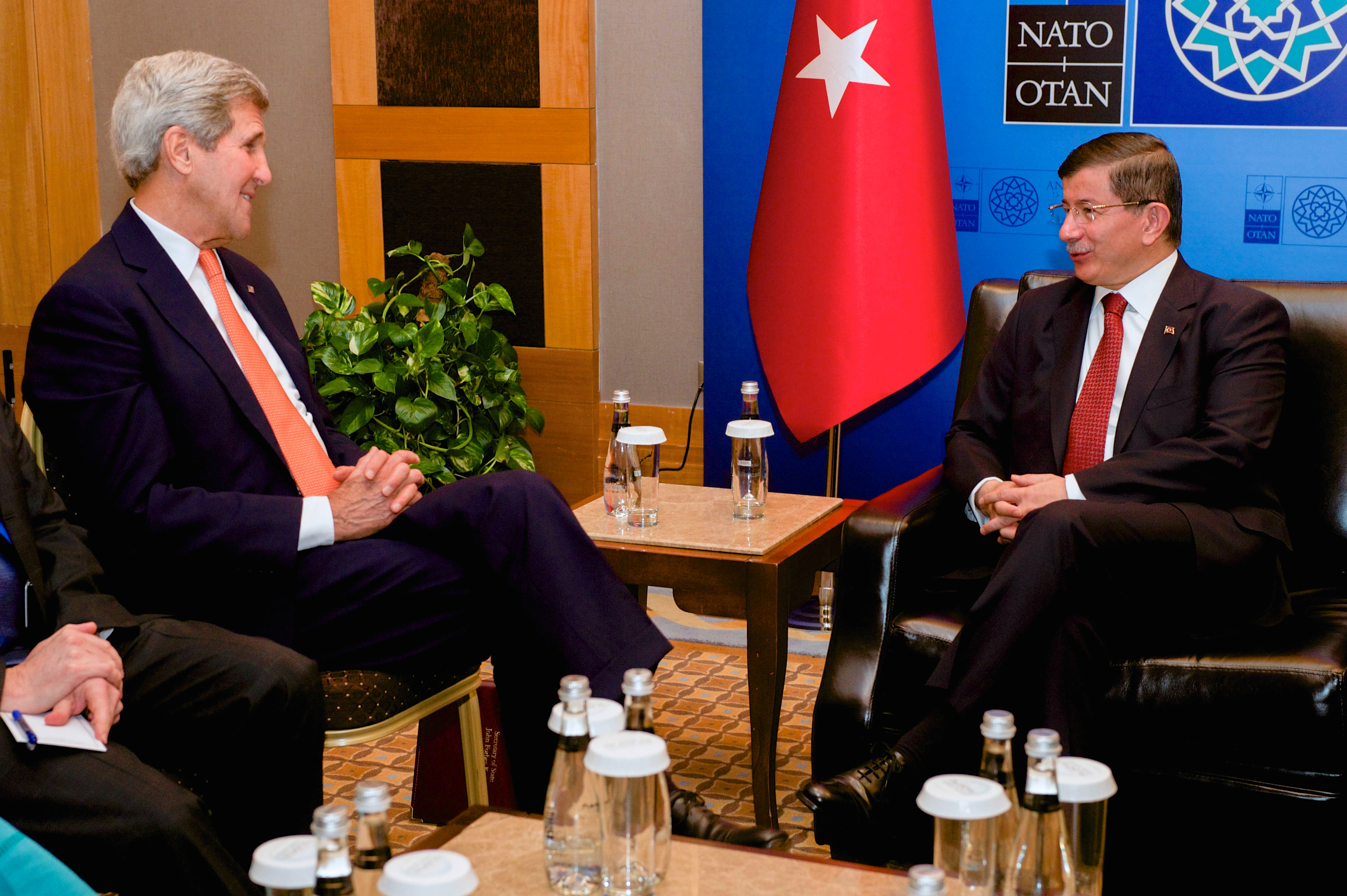 U.S. Secretary of State John Kerry meets with Turkish Prime Minister Ahmet Davutoglu - his former counterpart as Foreign Minister - on the sidelines of a NATO Ministerial Meeting in Antalya, Turkey, on May 13, 2015. [State Department Photo/Public Domain]